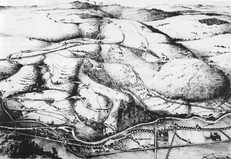 track of Windbergbahn near Freital, Saxony, Germany